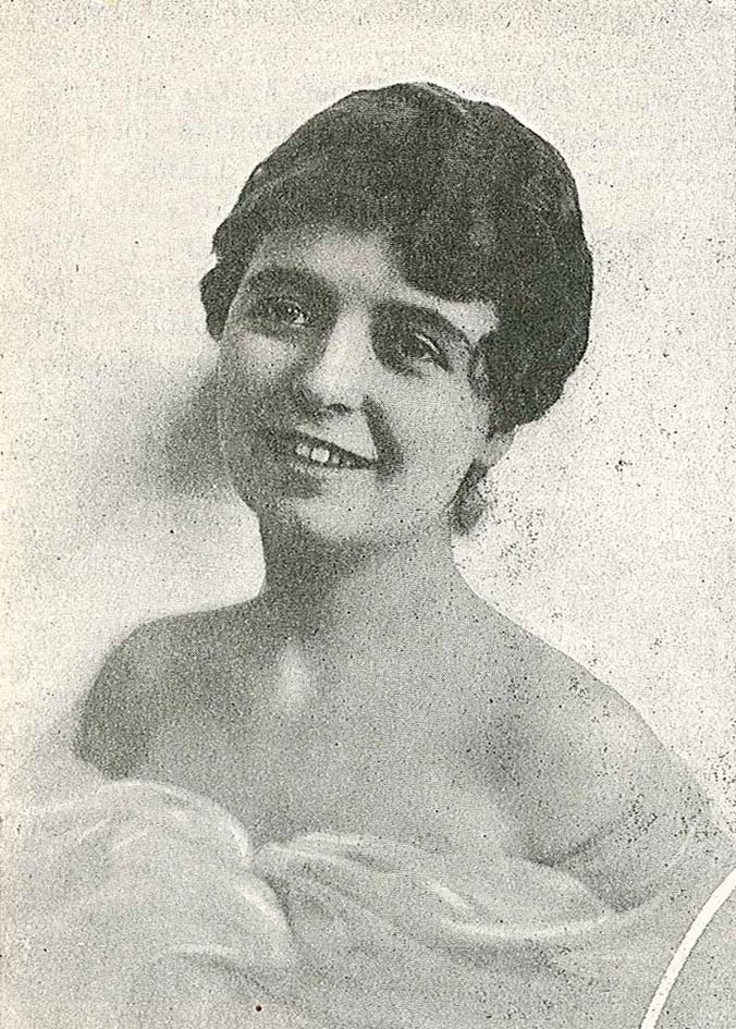 Gudrun Folmer-Hansen (1896-1976), Danish-born Swedish actress and singer.